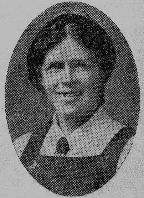 Marjory Gosset, one time England hockey team captain